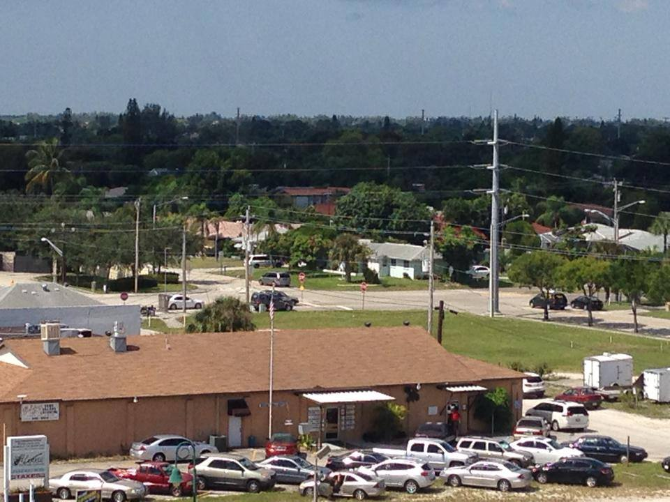 Caloosahatchee Moose Lodge 2395 - Cape Coral, FL